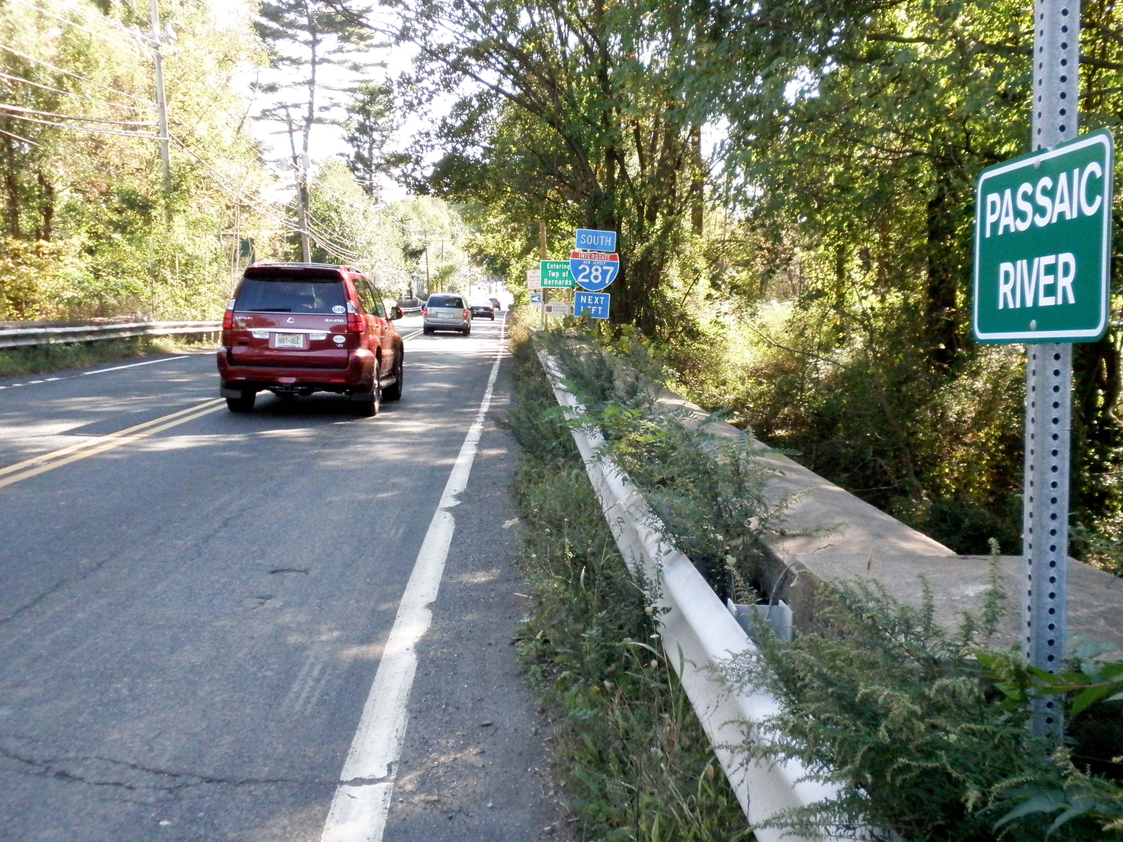 US Route 202 Bridge over the Passaic River, Basking Ridge Bernards - Harding Township, New Jersey (looking south)